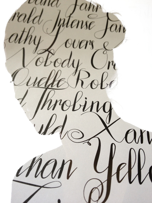 Specimen of Conspired Lovers handwriting Font by Harald Geisler.[1]